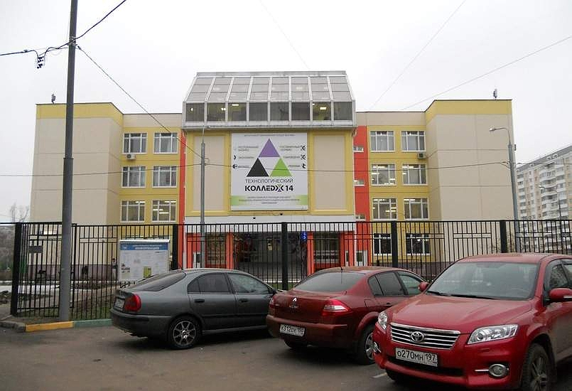 Technology college 2011